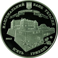 obverse of the coin 1120 the city of Uzhgorod